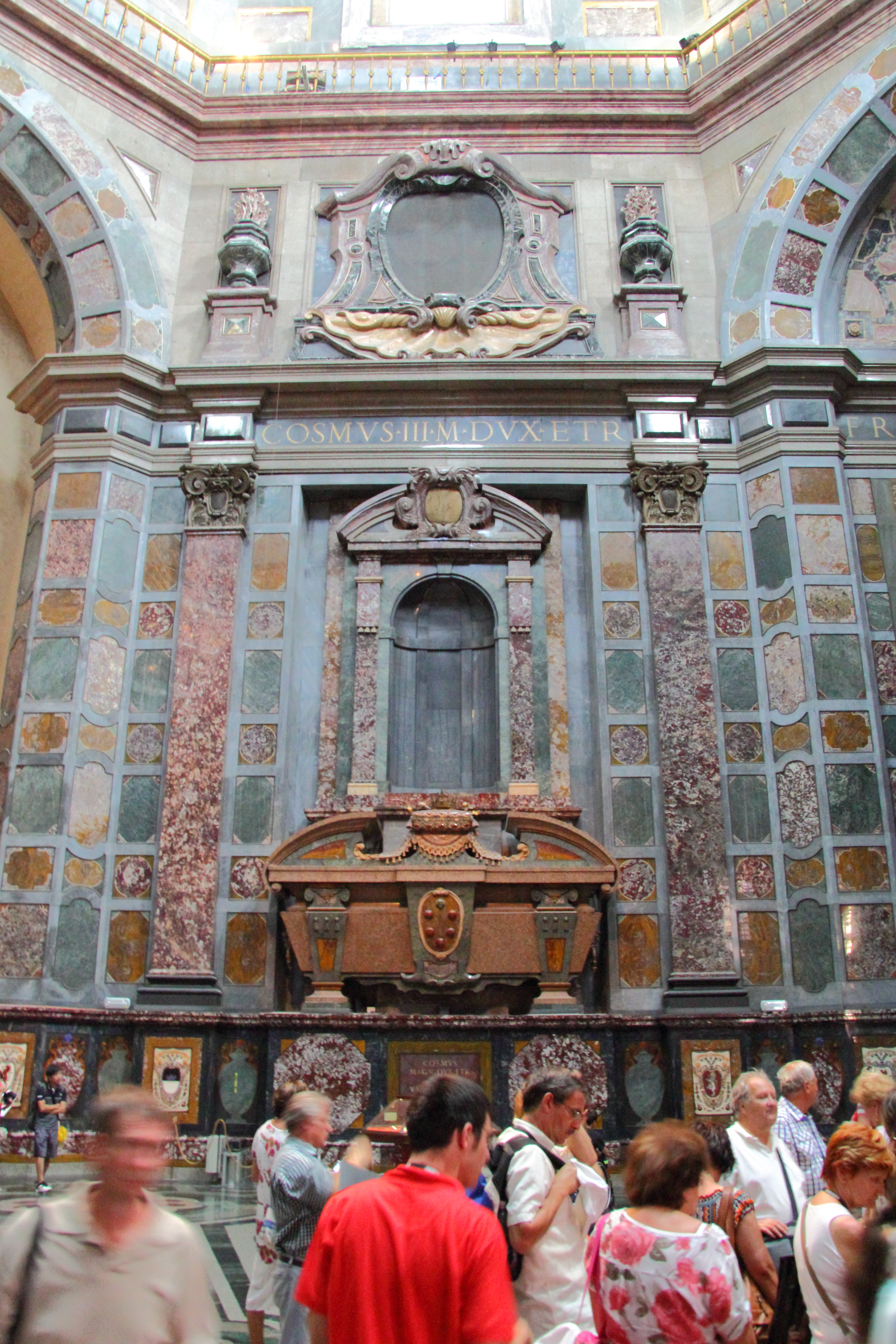 Florence, Italy: Capella dei Principi (Chapel of the Princes) at the church of San Lorenzo